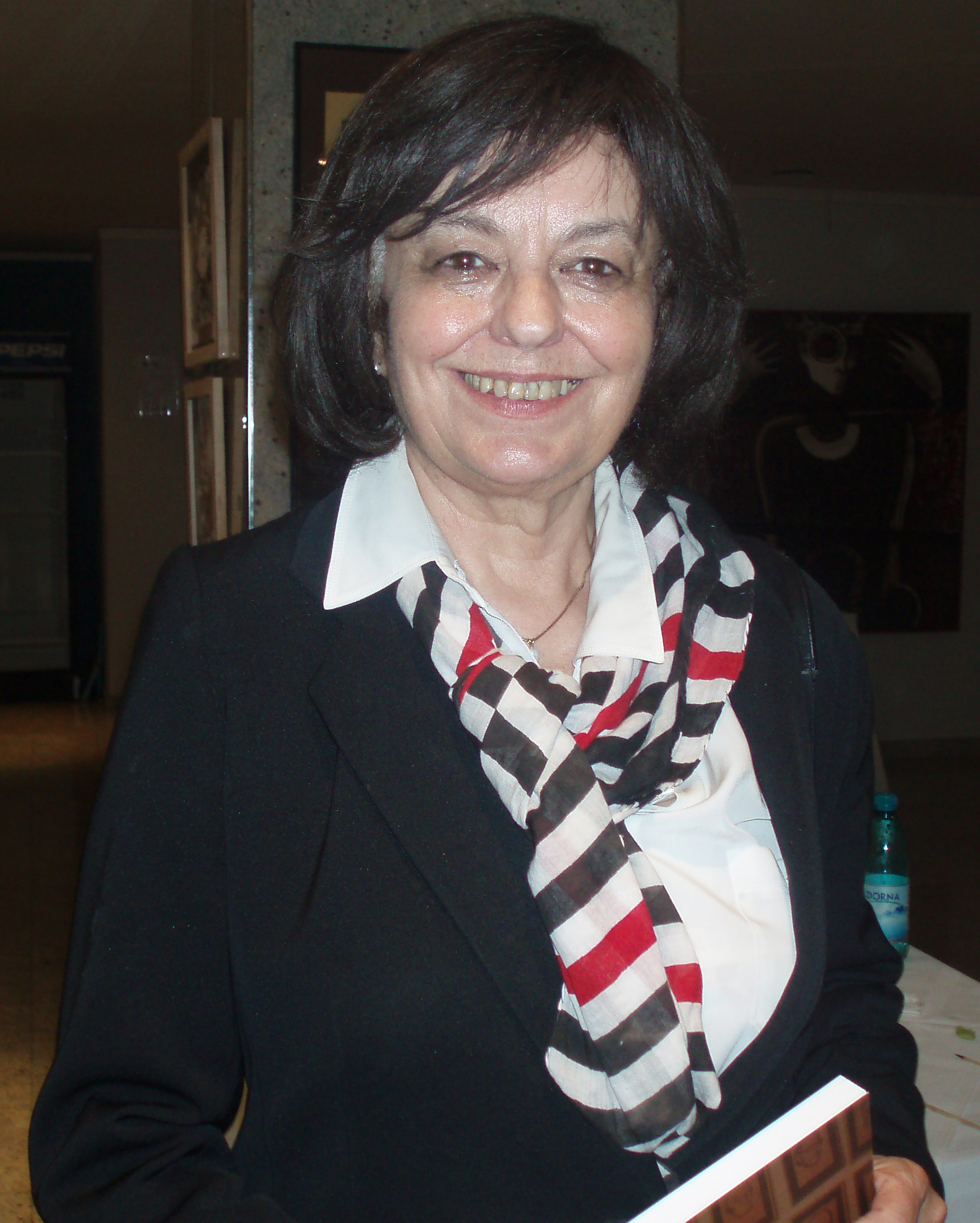 Ana Blandiana in 2008